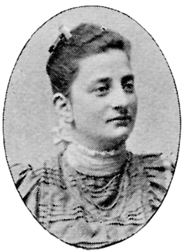 Image scanned from the book "Svenskt Porträttgalleri XX - Arkitekter, Bildhuggare, Målare m.fl. " ("Swedish Portrait Gallery XX - Architects, Sculptors, Painters, ") published 1901